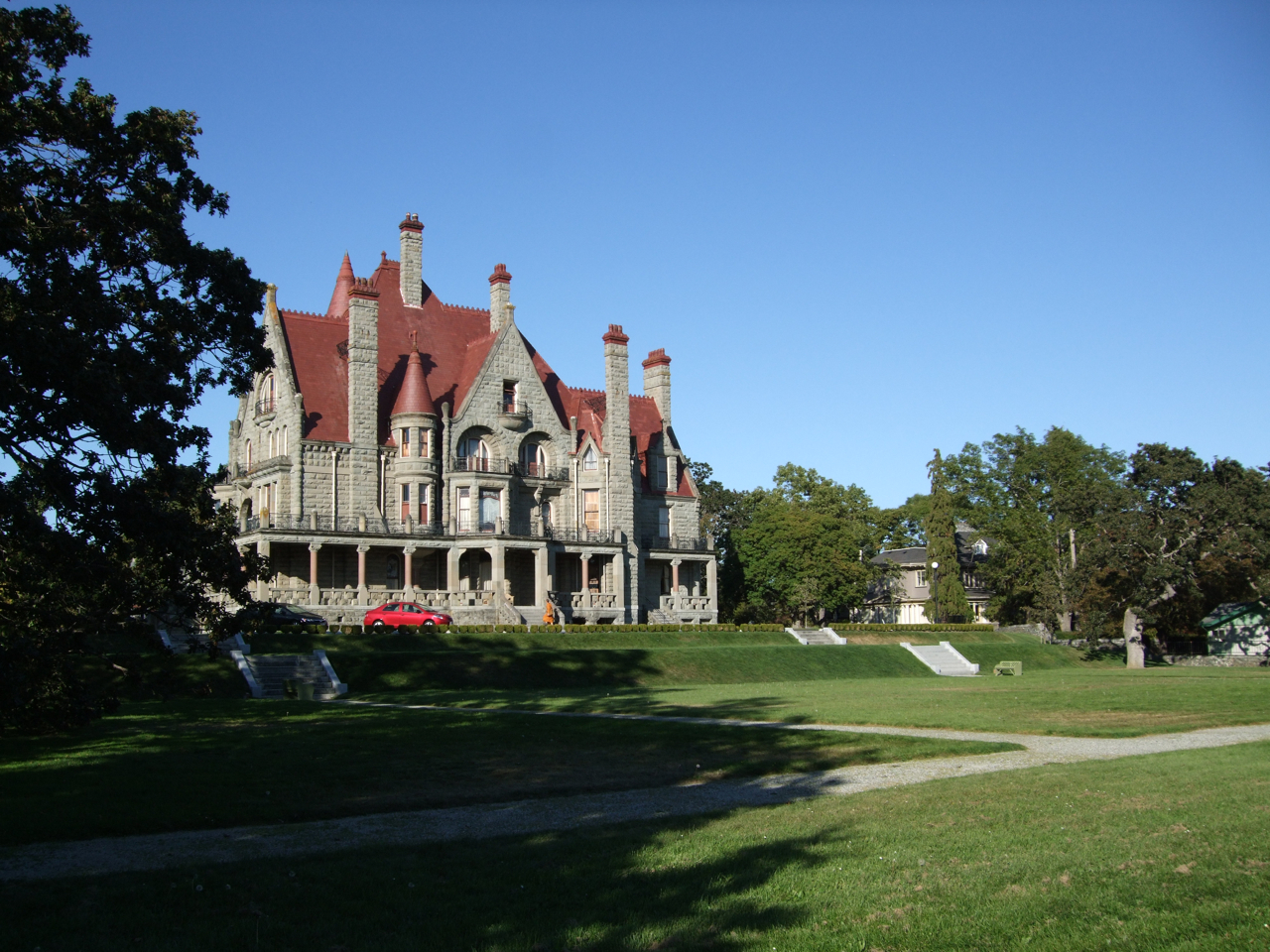 Craigdarroch Castle - Victoria, B.C. Canada Historic Place - IDF11955 IDM1478